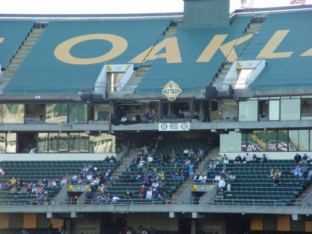 Taken at A's/Tigers game in Oakland, CA on 18 April 2006. The Bill King Broadcast Booth.